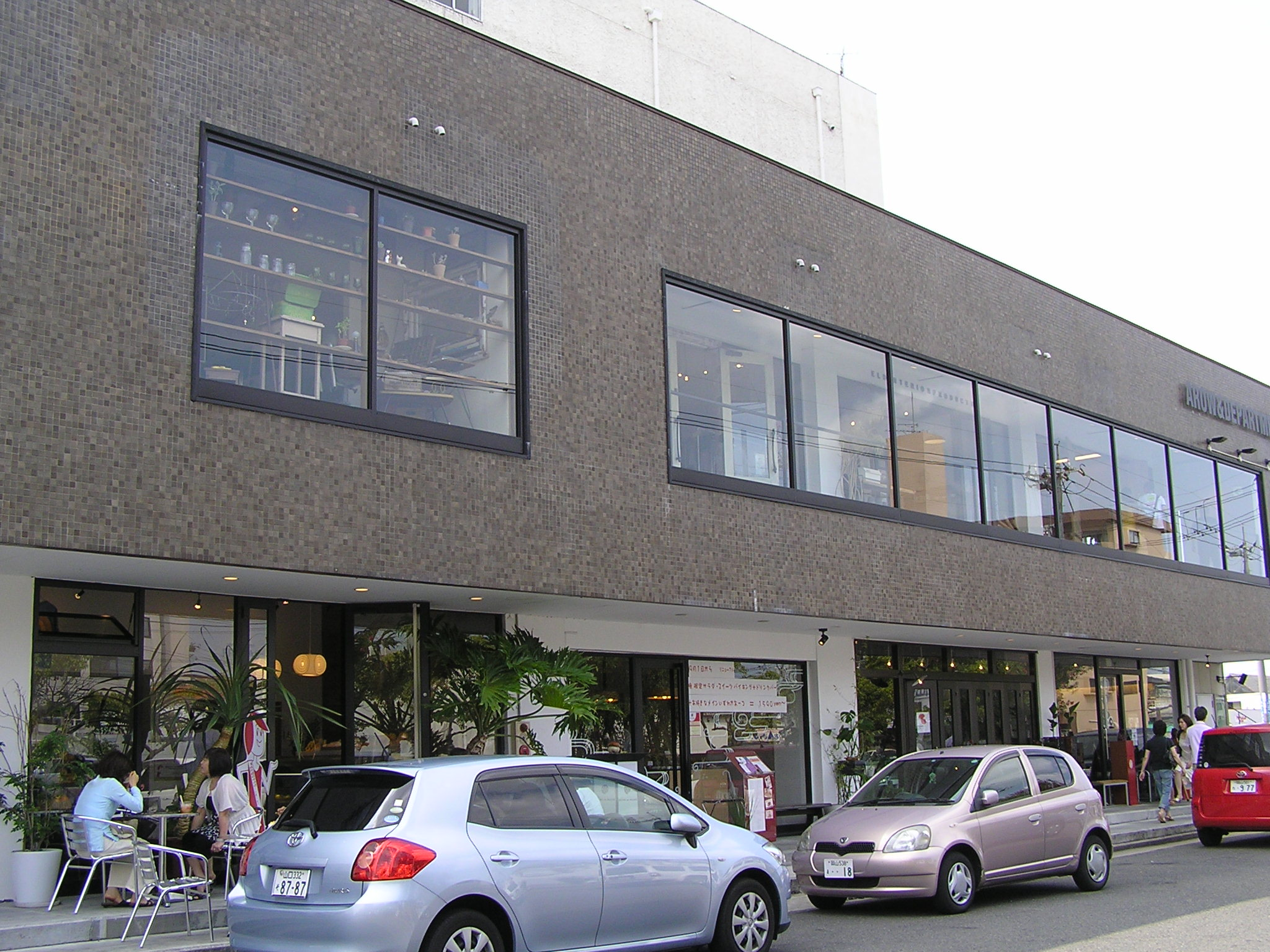 Town in Toiya-cho